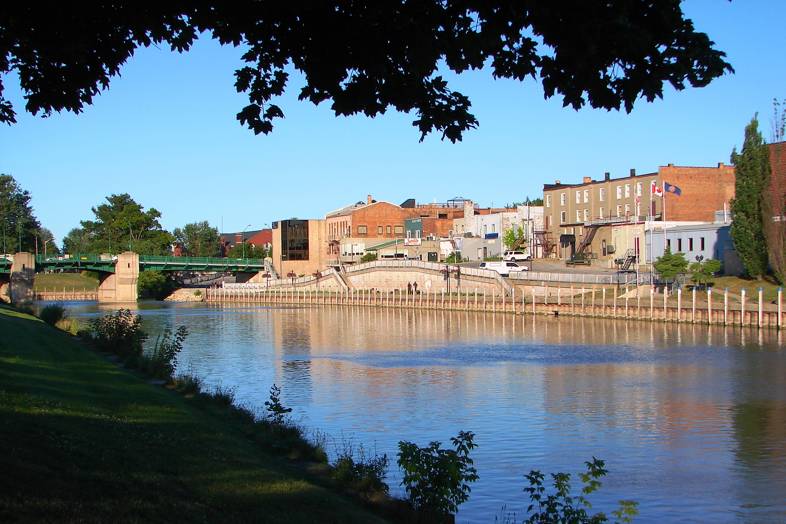 Thames River in downtown Chatham, Ontario, Canada